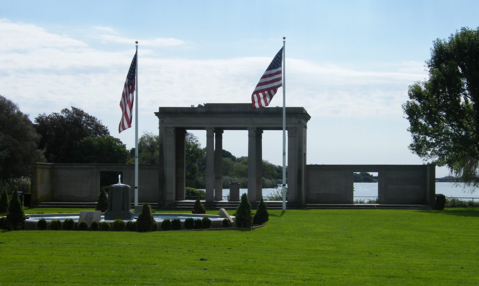 Agawam Park